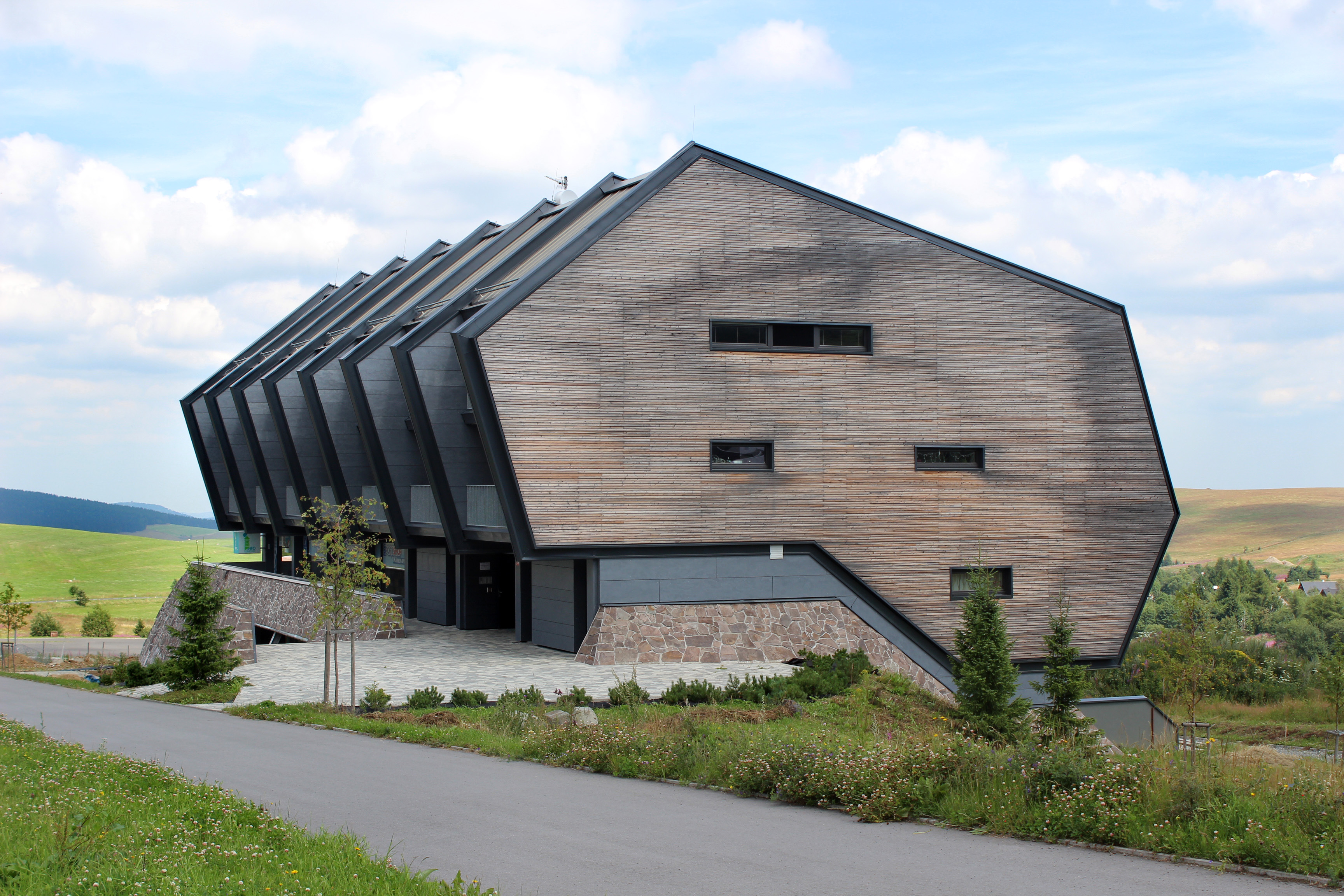 Apartments Klinovec: new hotel in Loučná pod Klínovcem, Czech Republic.